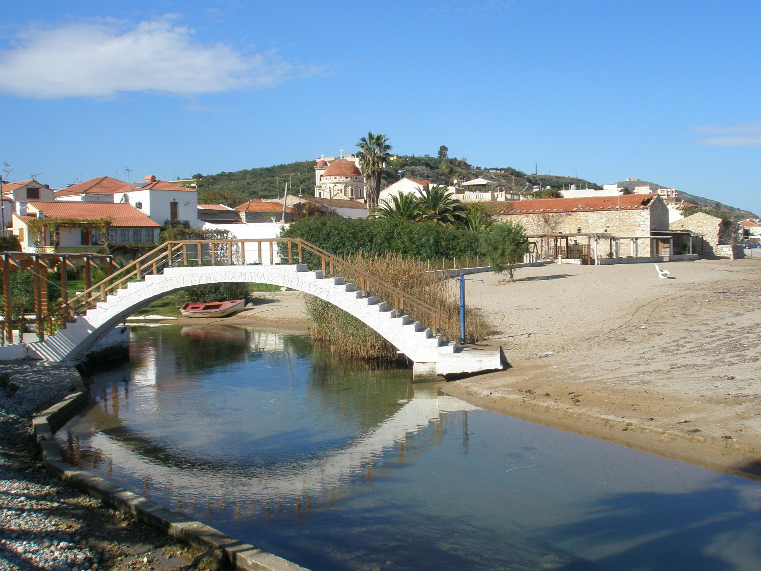 Kalives beach